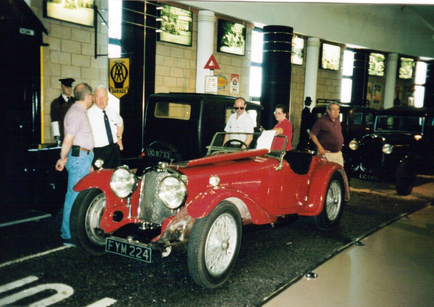 DVLA first registered 31 December 1934, 2000cc